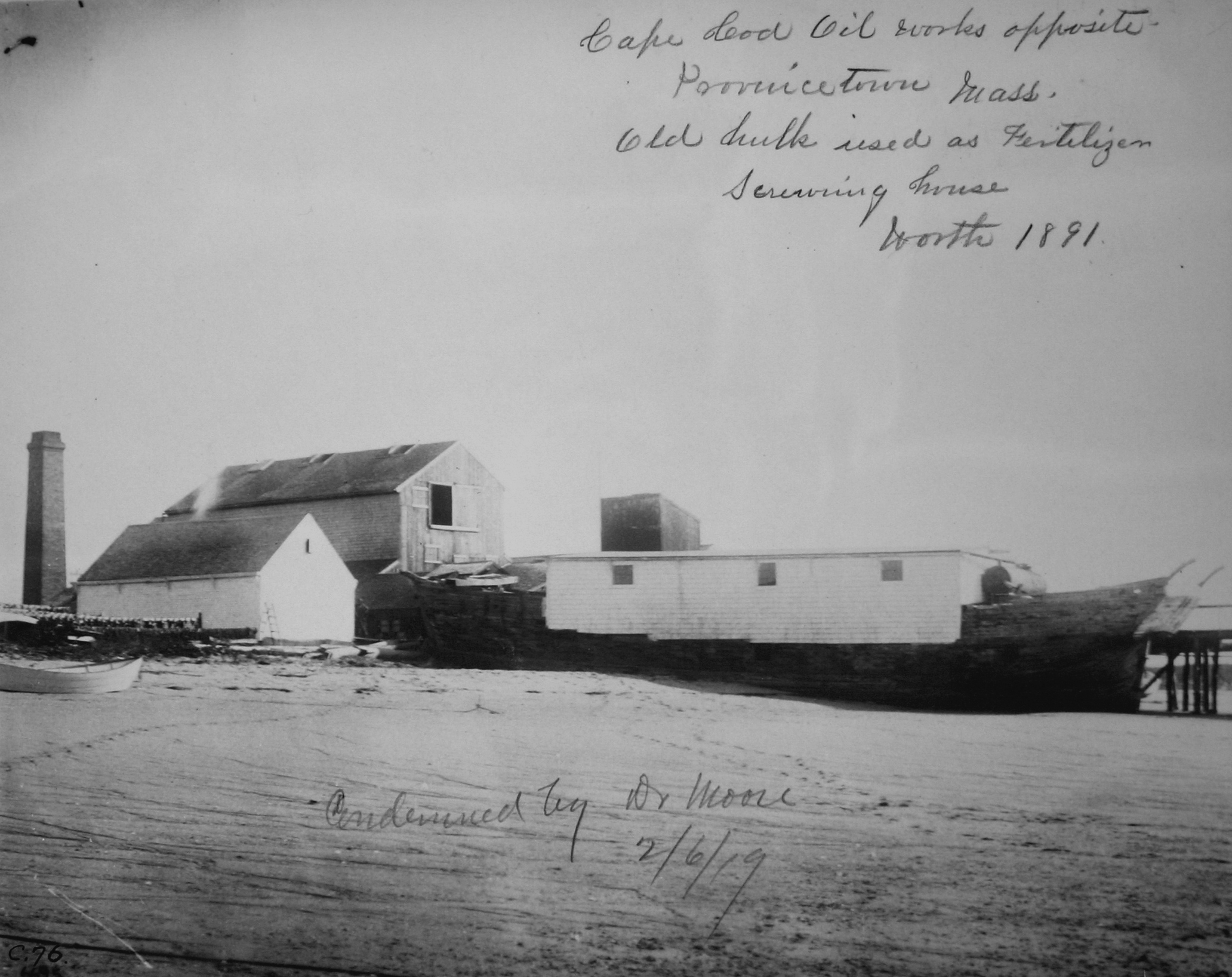 Written on this photograph is the following inscription: "Cape Cod Oil Works opposite Provincetown [meaning 'on Long Point'], Mass. Old hulk used as fertilizer screening house.—Worth 1891." Bottom inscription (added later) reads: "Condemned by Dr. Moore 2/6/[19]19" Image ID: fish6914, NOAA's Historic Fisheries Collection Credit: Gulf of Maine Cod Project, NOAA National Marine Sanctuaries; Courtesy of National Archives From the EXIF data: RG 22-C. Records of the U.S. Fish and Wildlife Service. U.S. Commissioner of Fish and Fisheries. Cyanotypes: Commercial Fishing Activity in the United States, 1882-1891. Massachusetts. Box 1 of 2. United States Fisheries Heritage Digital Collection